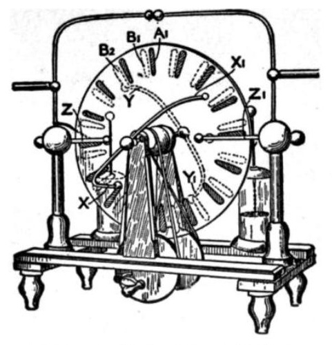 Suppose that the conditions are as in the figure that is the segment A1 is positive and the segment B1 negative. Now, as A1 moves to the left and B1 to the right, their potentials will rise on account of the work done in separating them against attraction. When A1 comes opposite the segment B2 of the B plate, which is now in contact with the brush Y, it will be at a high positive potential, and will therefore cause a displacement of electricity along the the conductor between Y and Y1 bringing a large negative charge on B2 and sending a positive charge to the segment touching. As A1 moves on, it passes near the brush Z and is partially discharged into the external circuit. It then passes on until, on touching the brush X it is put in connection with X, and has a new charge, this time negative, driven into it by induction from B2. Positive electricity, then, being carried by the conducting patches from right to left on the upper half of the A plate, and negative from left to right on its lower half.